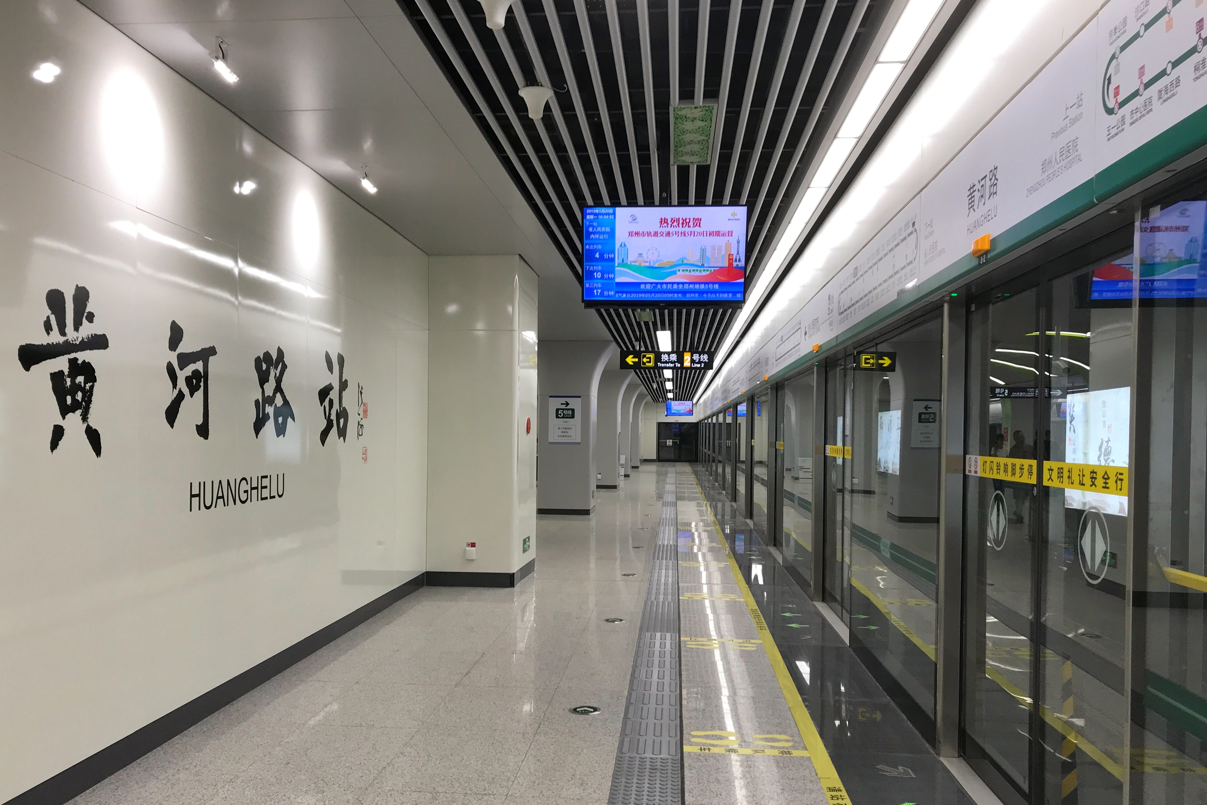 Platform of Line 5 at Huanghelu Station. It's the first day of operation for Line 5.